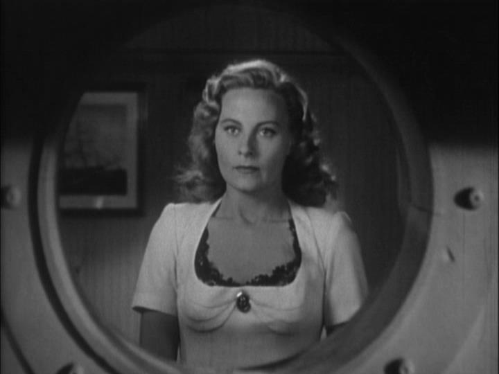 Screenshot of Michele Morgan from the film The Chase.